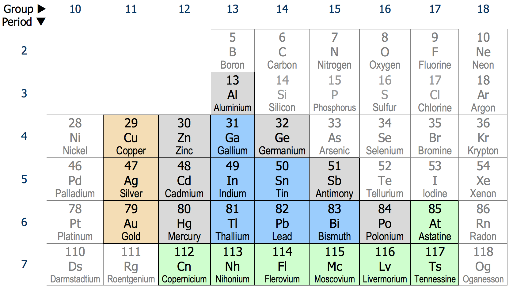 Post-transition metals in the periodic table